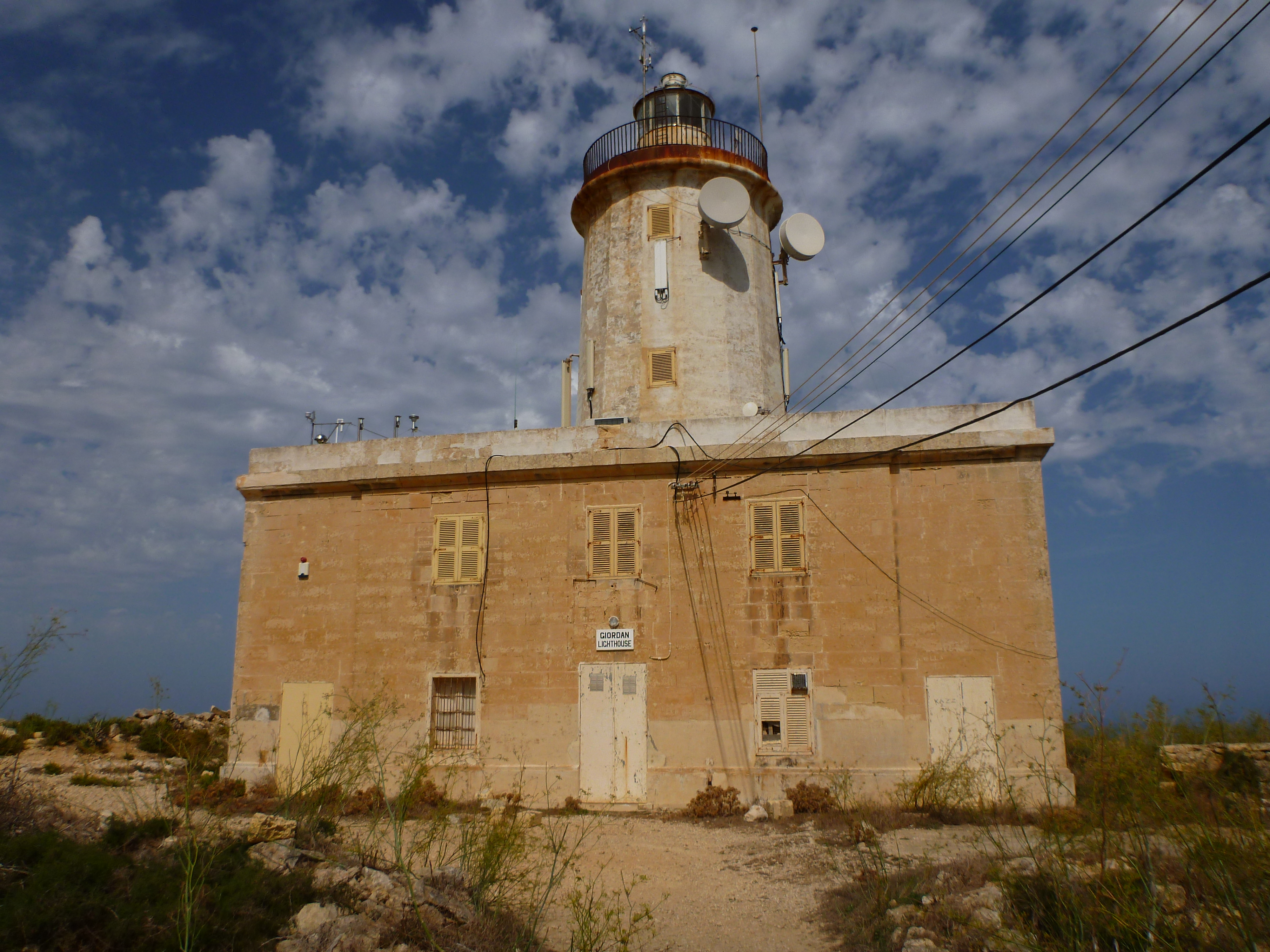 Front view of the Giordan Lighthouse (Ta’ Gurdan Lighthouse) close to Ghasri in Malta on island Gozo